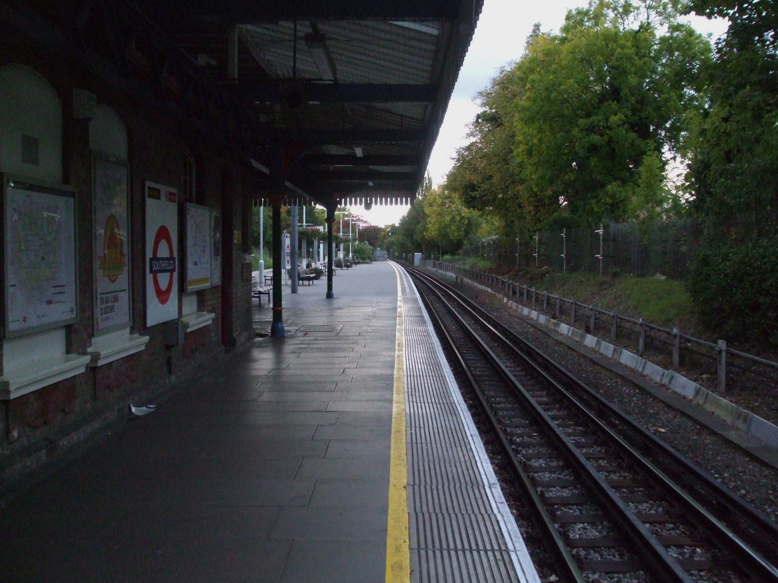 Southfields tube station westbound platform (actually southbound here) looking north